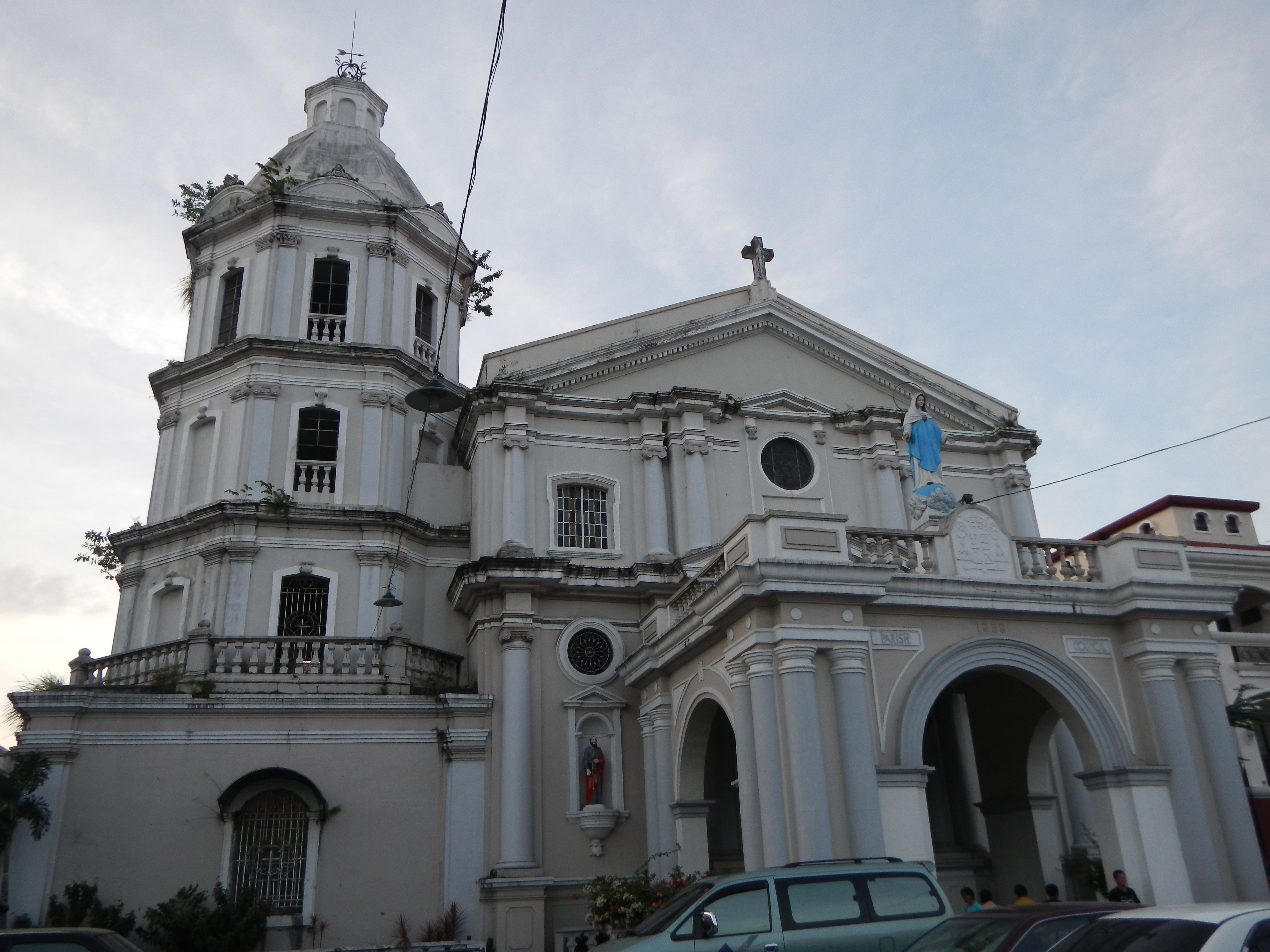 Metropolitan Cathedral of San Fernando[1] Roman Catholic Archdiocese of San Fernando